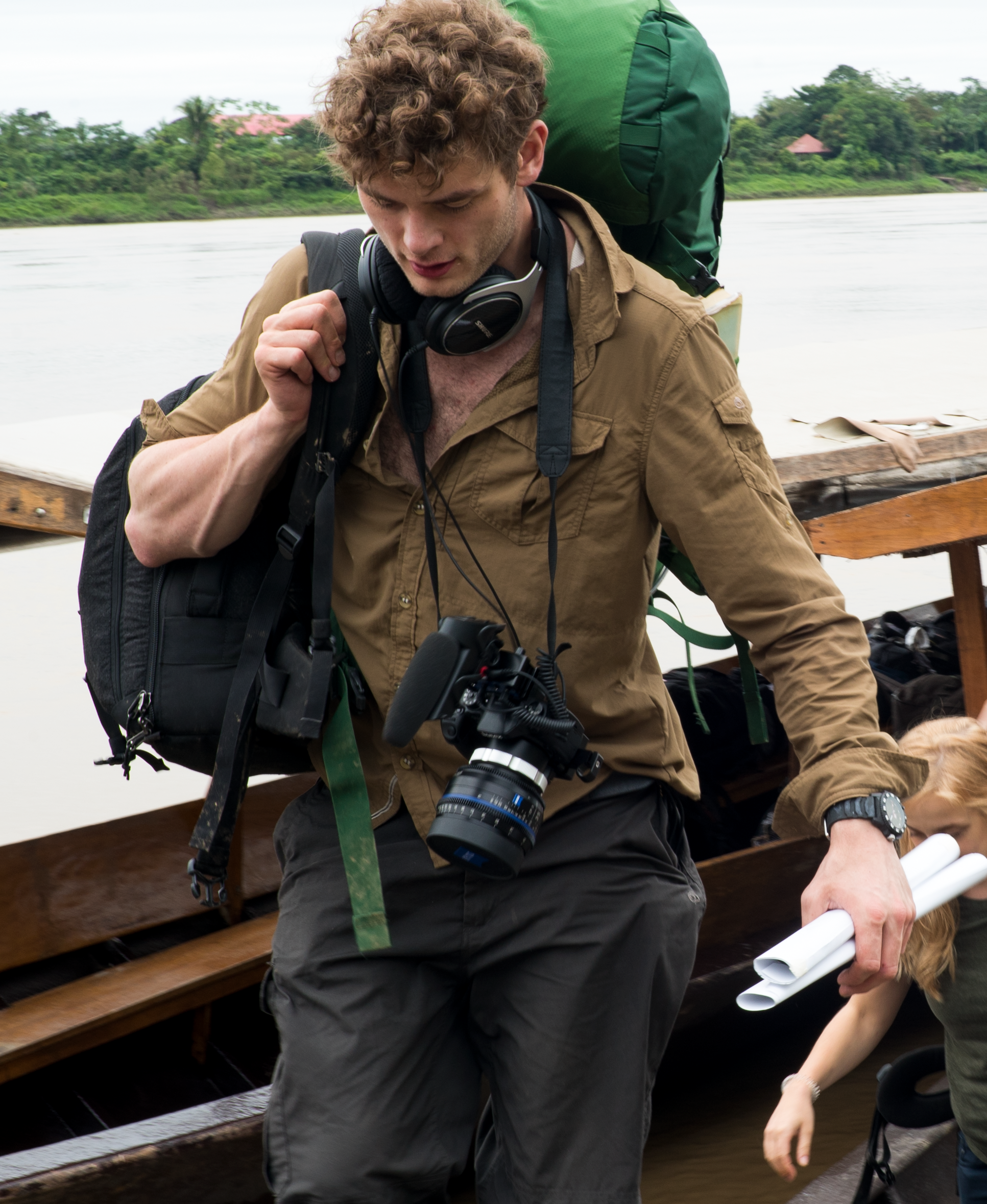 Rupert Clague filming in the Peruvian Amazon jungle.